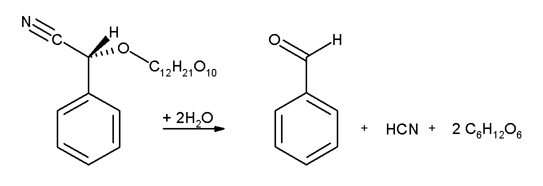 Hydrolysis of amygdalin to form benzaldehyde, hydrogen cyanide, and two sugar molecules